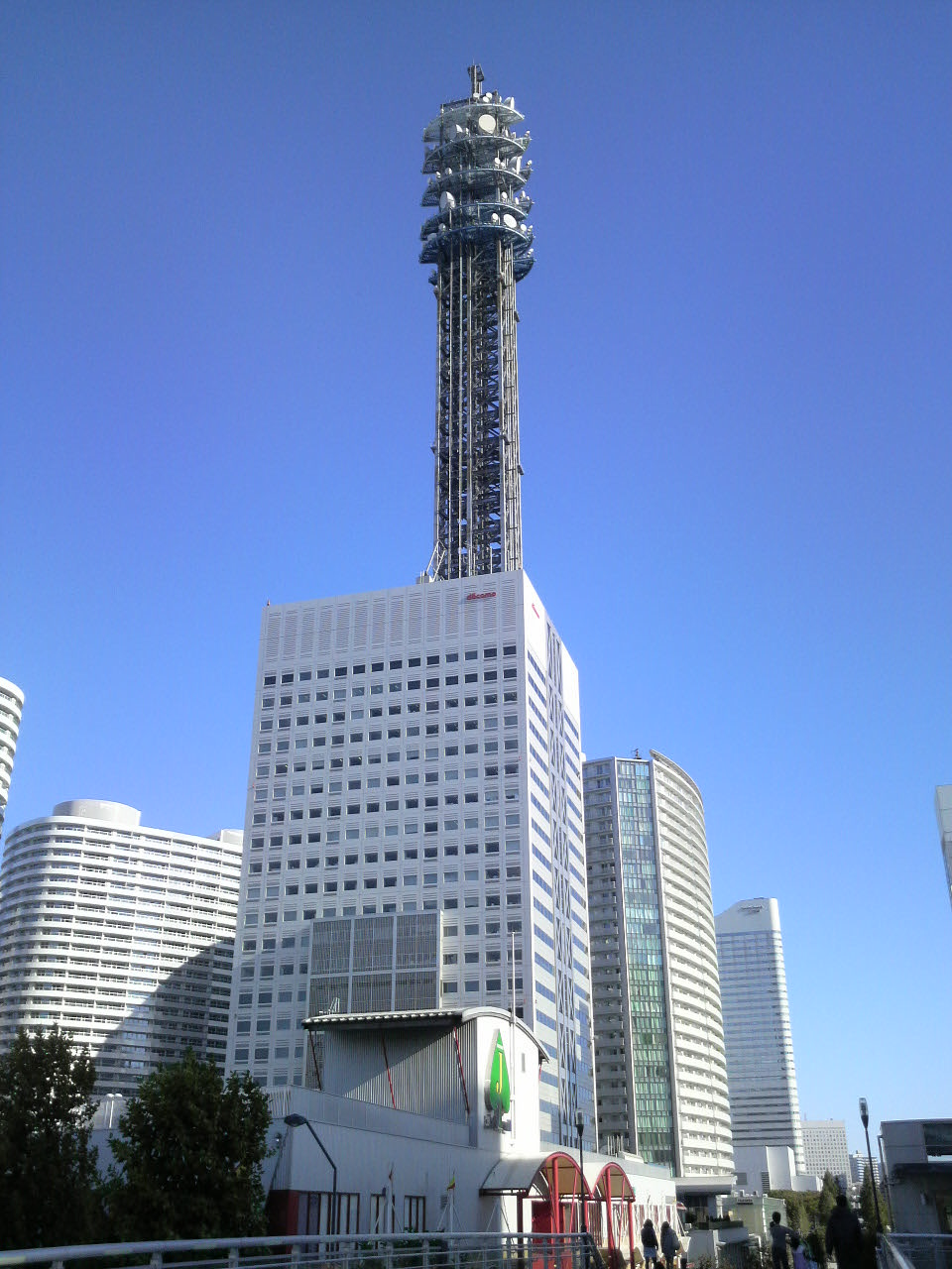 YOKOHAMA MEDHIA TOWER（NTT DOCOMO KANAGAWA BRANCH）